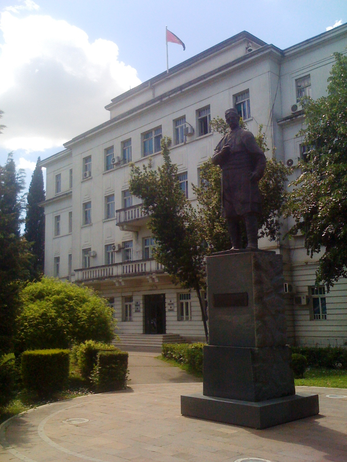 Podgorica city hall